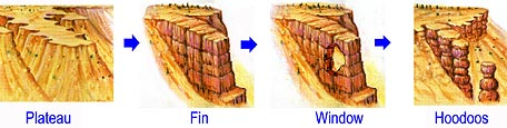 Hoodoo's Formation, NPS image from [1]